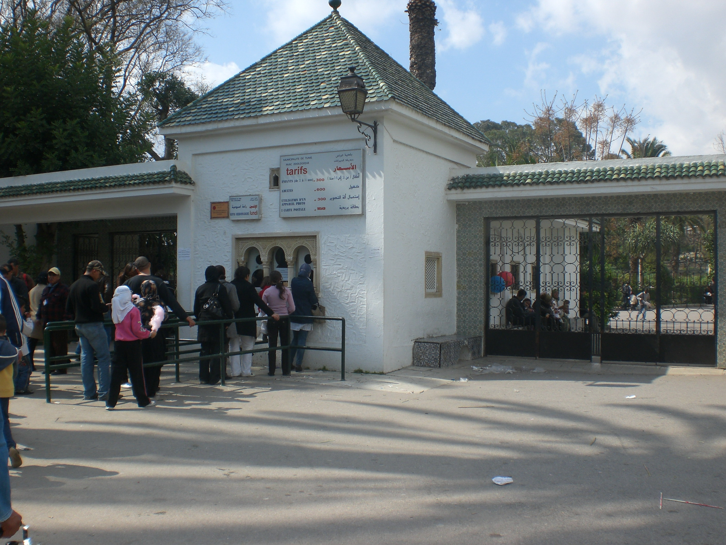 The entry of Belvédère Parc -Tunis